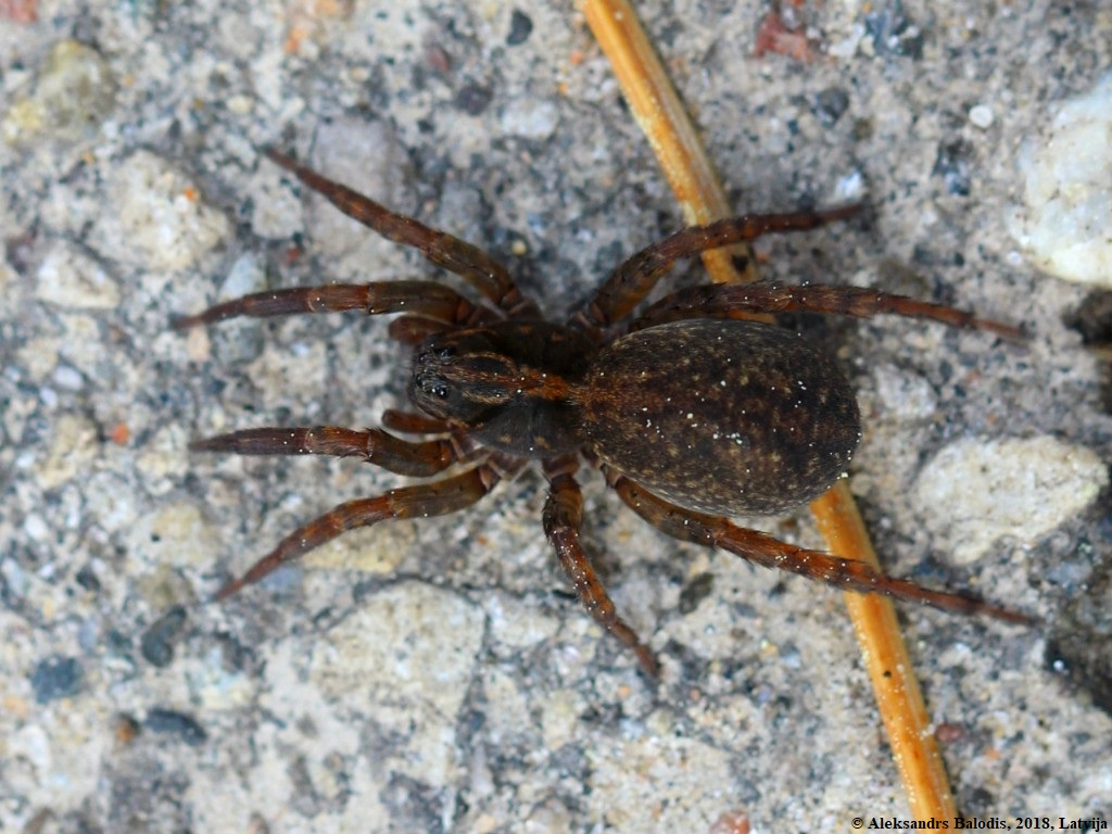 Trochosa terricola